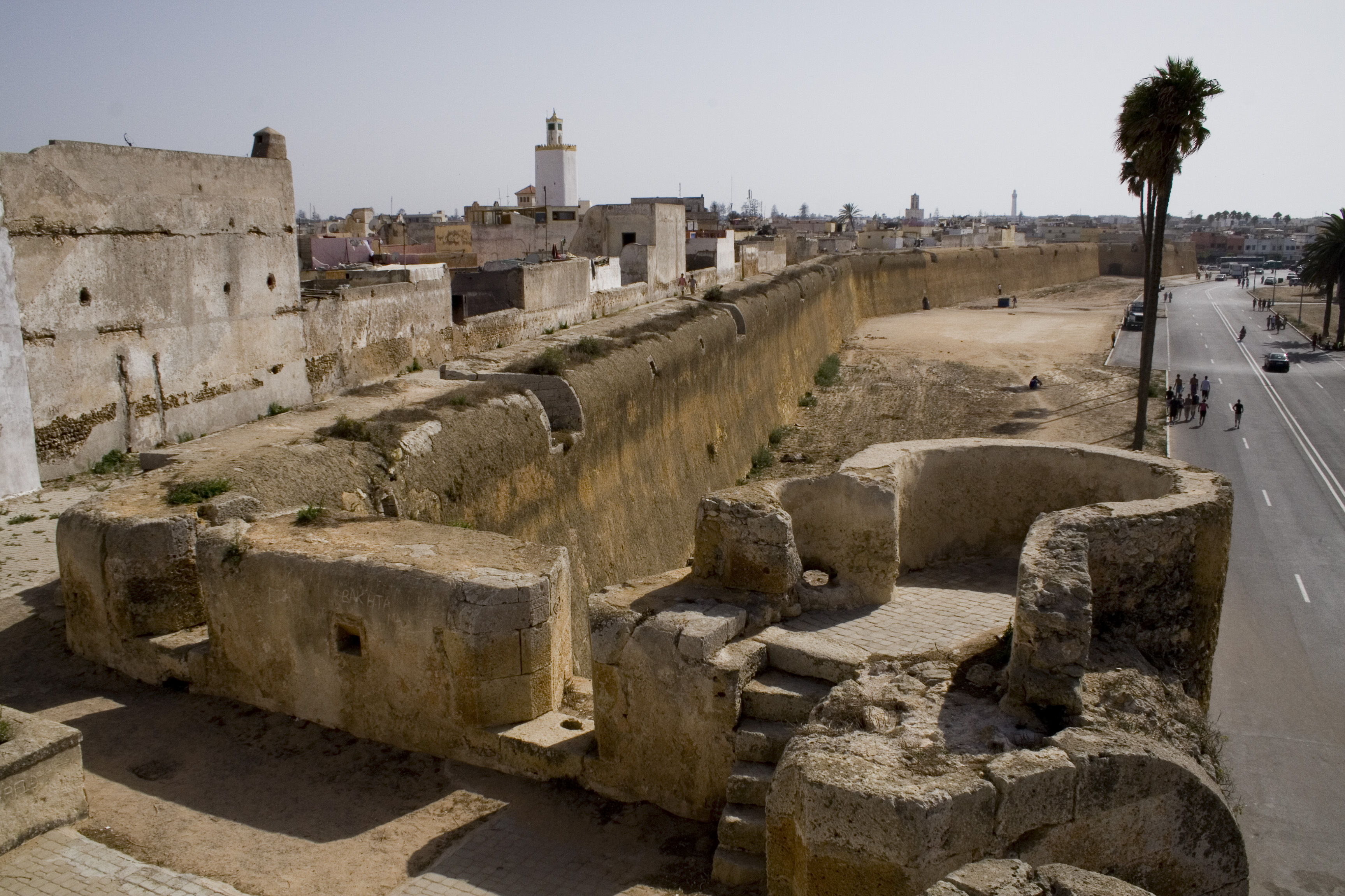 View from the walls of the formerly Portuguese porttown of El Jadida in western Morocco